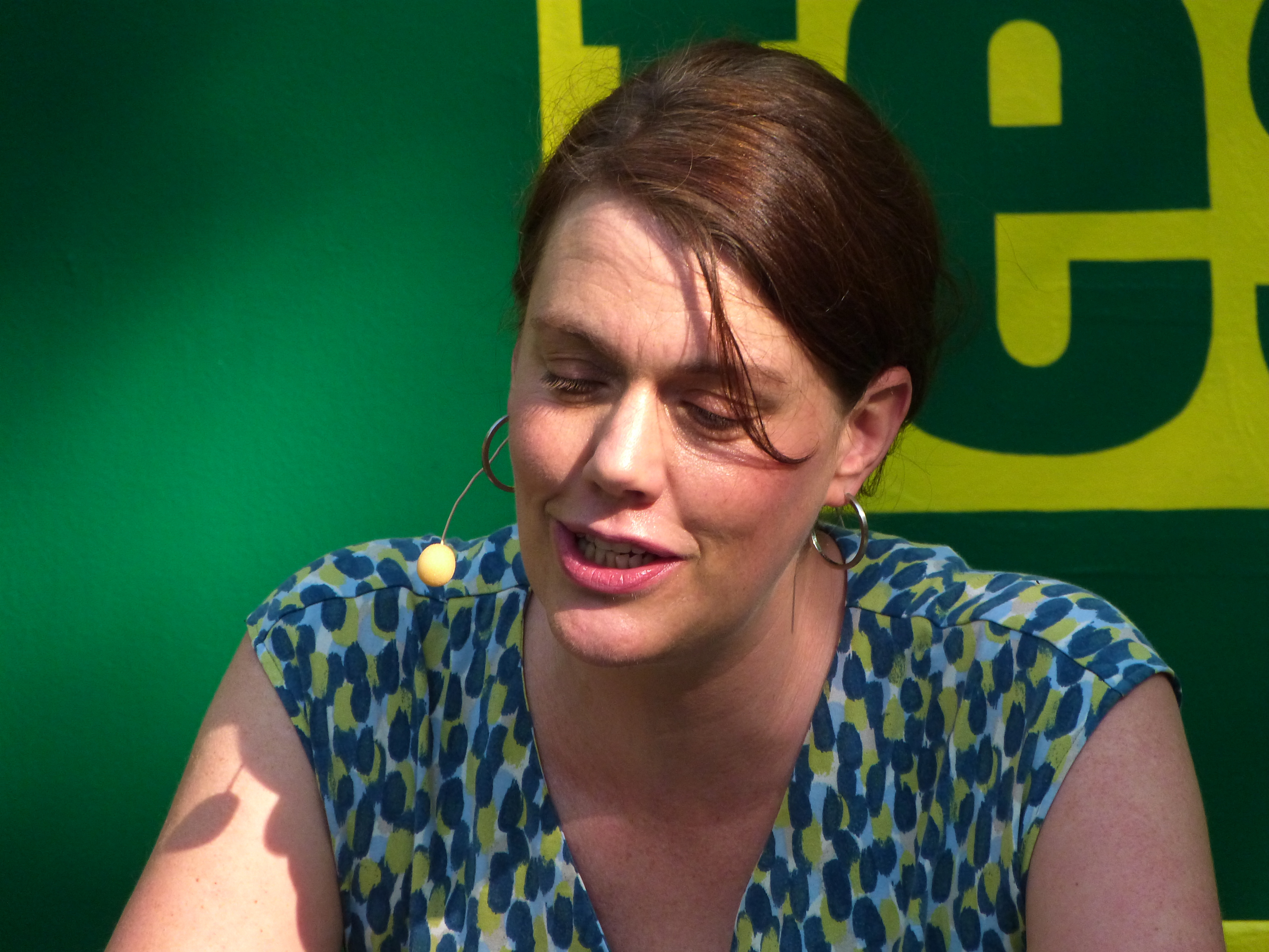 German writer Christina Erbertz at the Erlanger Poetenfest 2019.